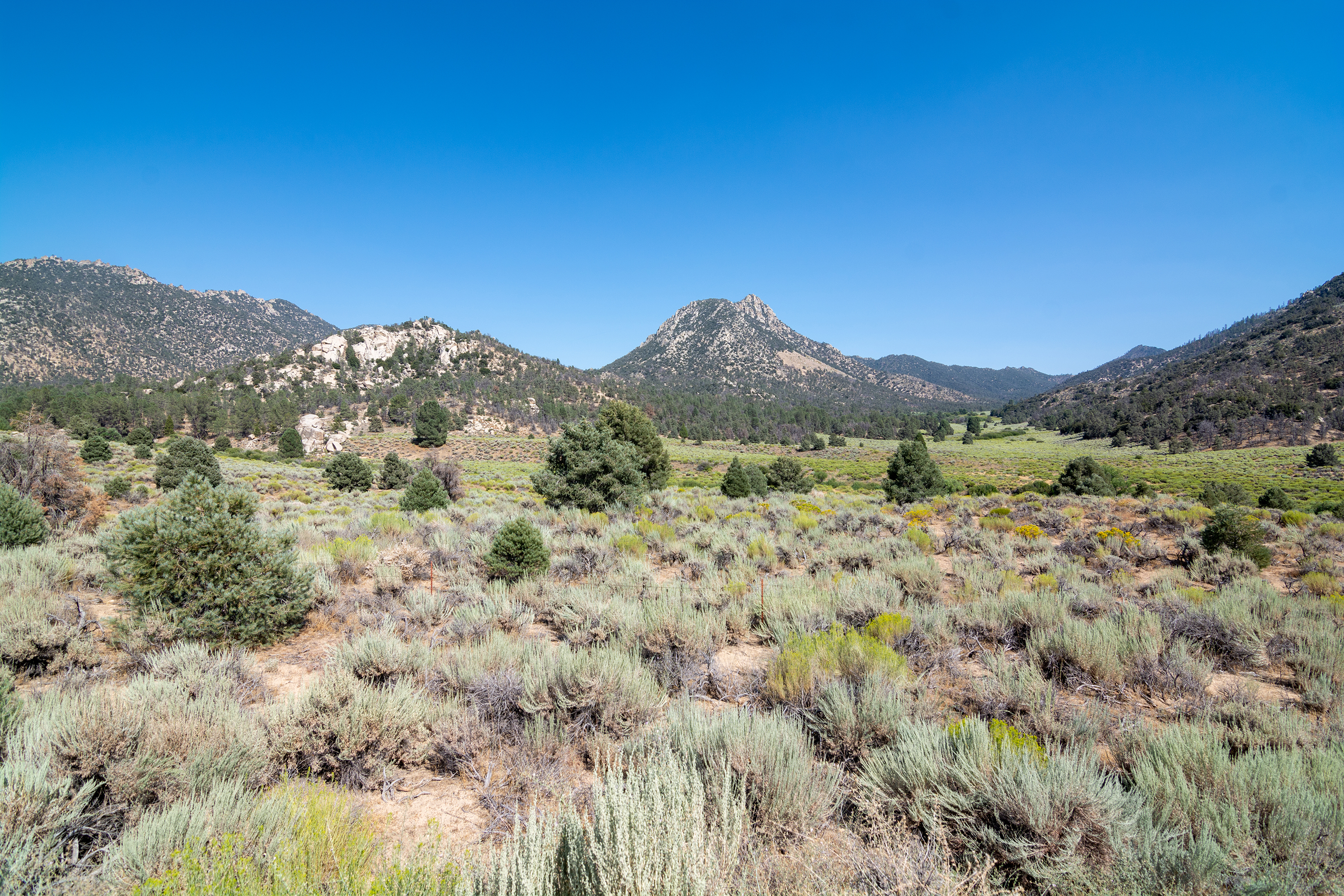 Files uploaded by PDTillman